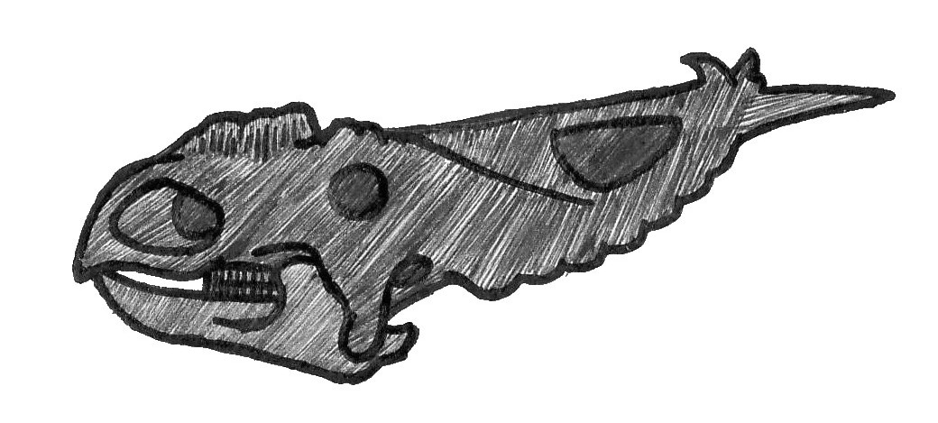 Simple illustration of the skull from the ceratopsian dinosaur Pachyrhinosaurus, or "Thick-nosed lizard". ( The illustration is of the species ( P. canadensis )